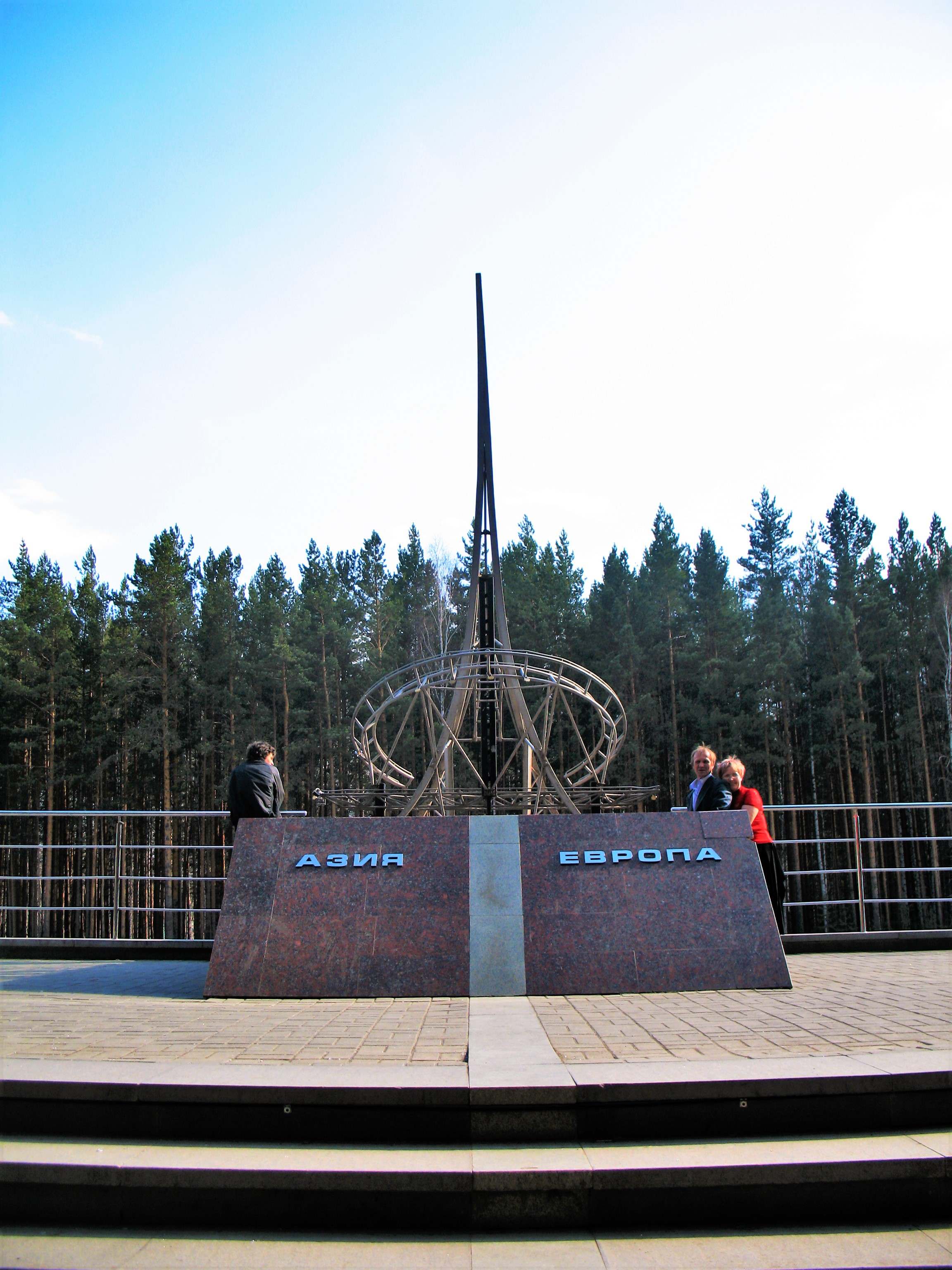 Obelisk marking the line between Asia and Europe at kilometer 17 of the New Moscow Route (route E22 and P242) near Yekaterinburg